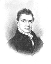 From the U.S. Senate historical office